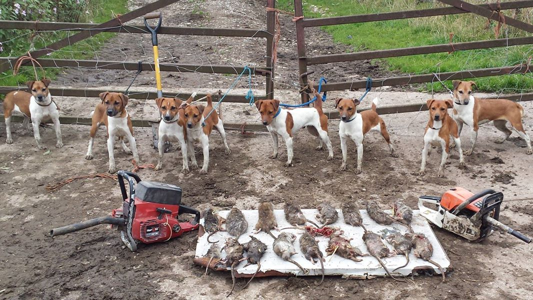 Plummer terrier. An all round working terrier that excels at ratting.